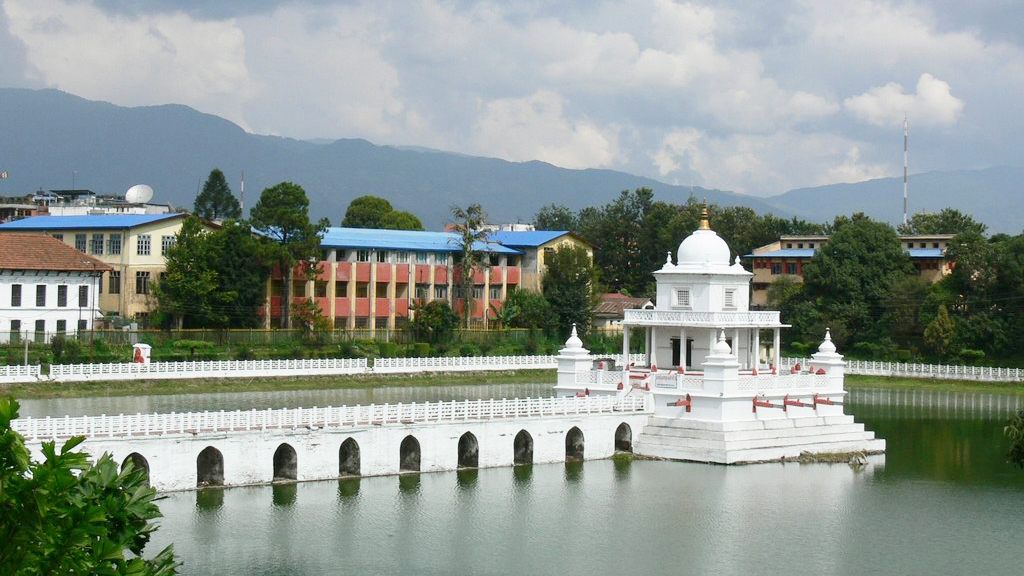 Rani Pokhari, Kathmandu, Nepal